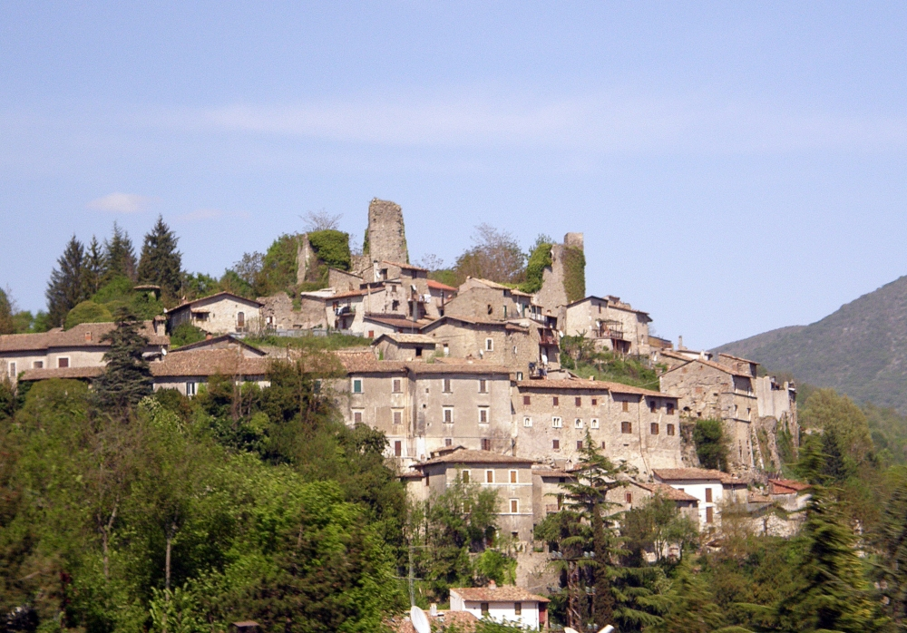 Carsoli AQ